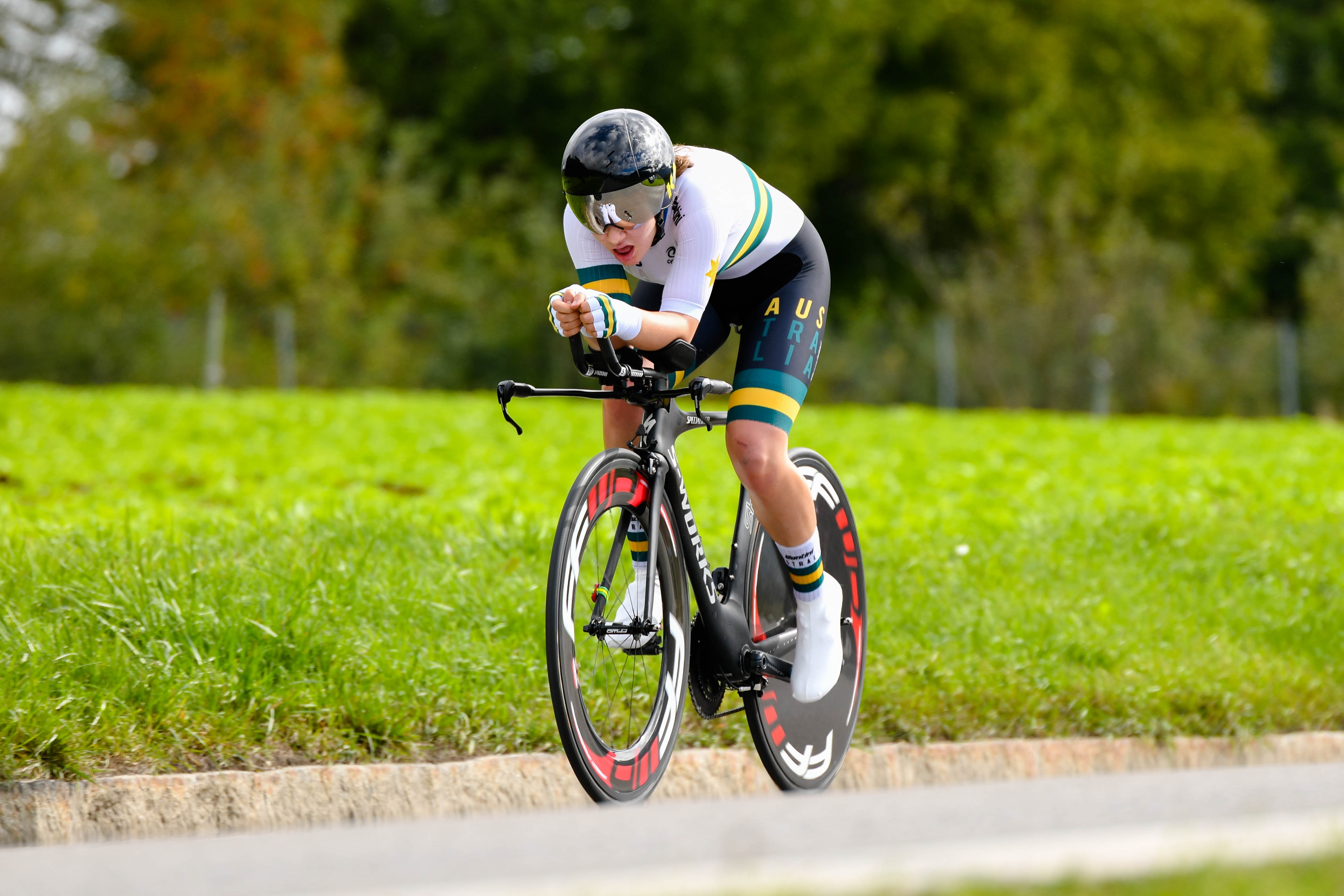 2018 UCI Road World Championships Innsbruck/Tirol Women Juniors Individual Time Trial. Picture shows: Sarah Gigante (AUS)